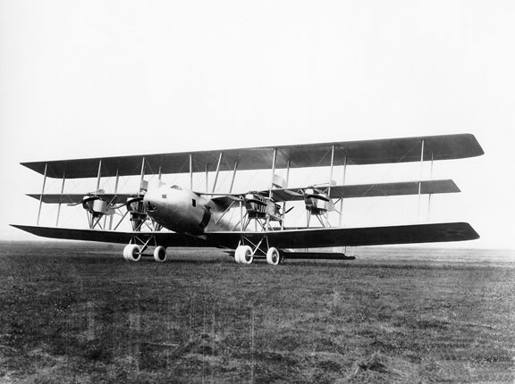 WITTEMAN-LEWIS XNBL-1 BARLING BOMBER, DESIGNED AT McCOOK AND ASSEMBLED AT WILBUR WRIGHT FIELD FLEW FIRST IN AUGUST, 1923.